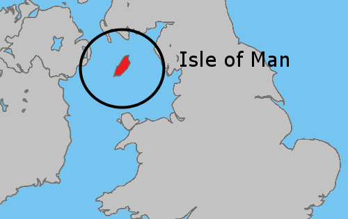 Image of the Crown Dependencies